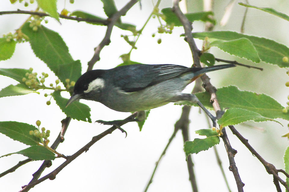 Drive to Libano